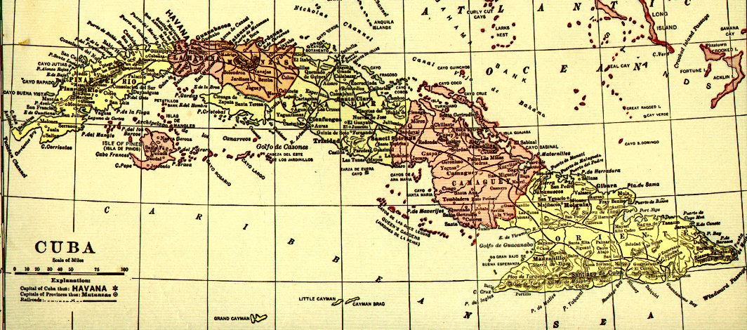 Cuba, historic provinces and detailed map